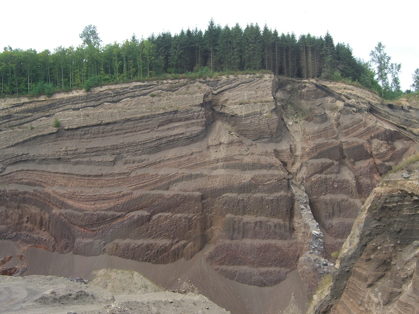 Eppelsberg